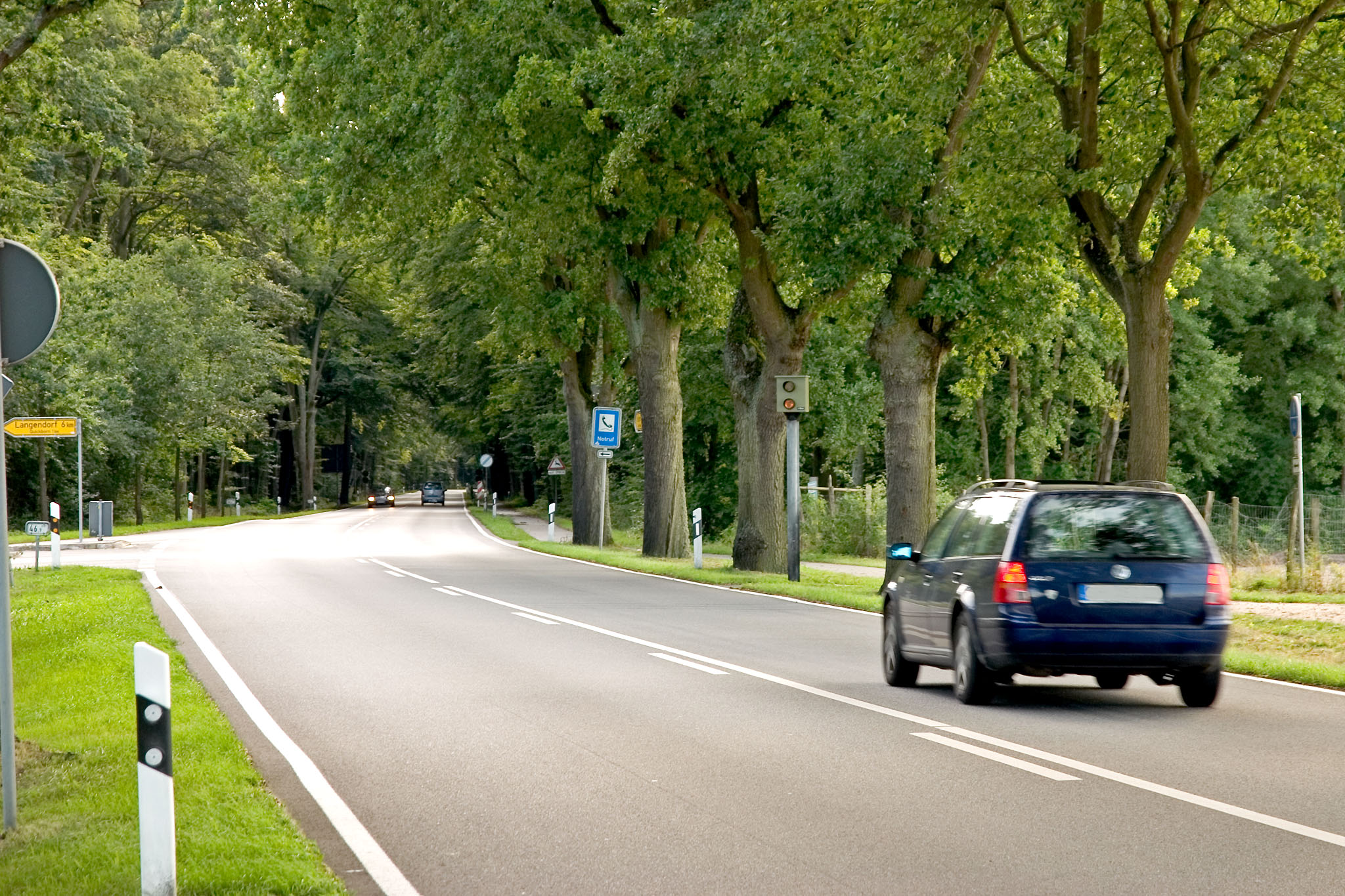 Speed camera at the Bundesstrasse 191 (Federal road) in Lower Saxony, Germany.